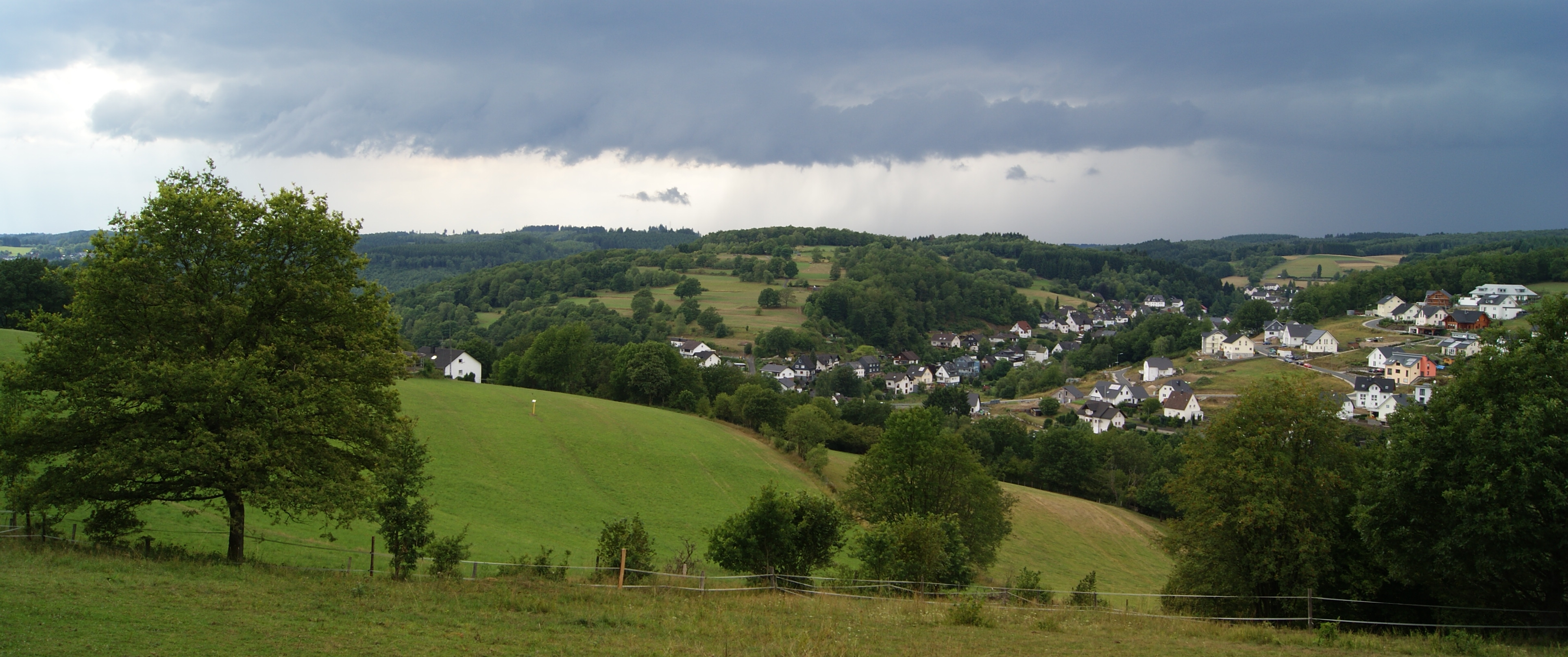 Weather and landscapes; taken in Niederndorf in Freudenberg, Germany.